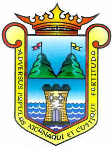 Seal of the municipality of Lagos de Moreno, Jalisco.